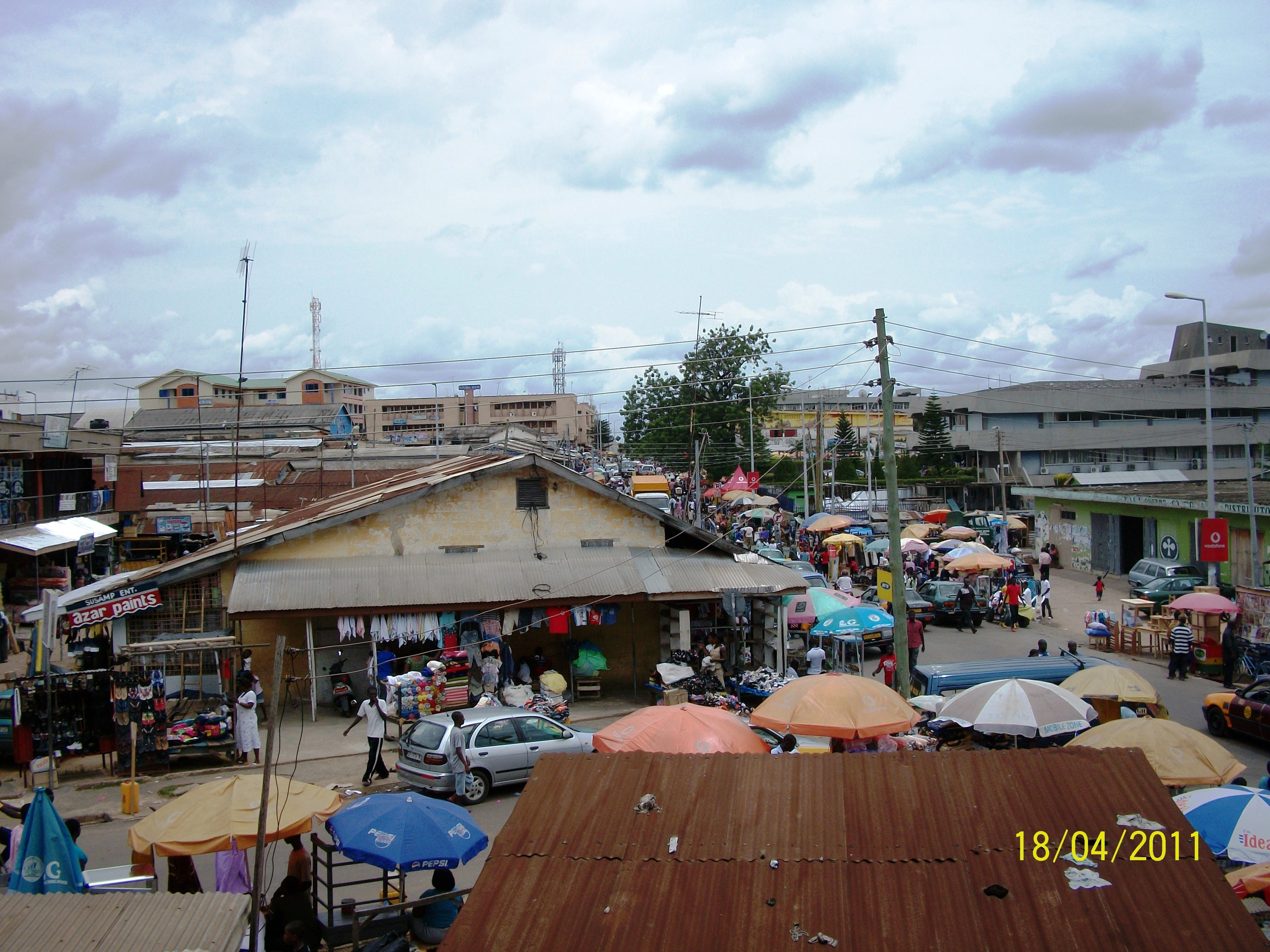 Overlooking Koforidua central business town